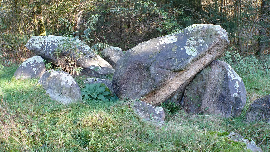 Steinloger Kellersteine 2-a